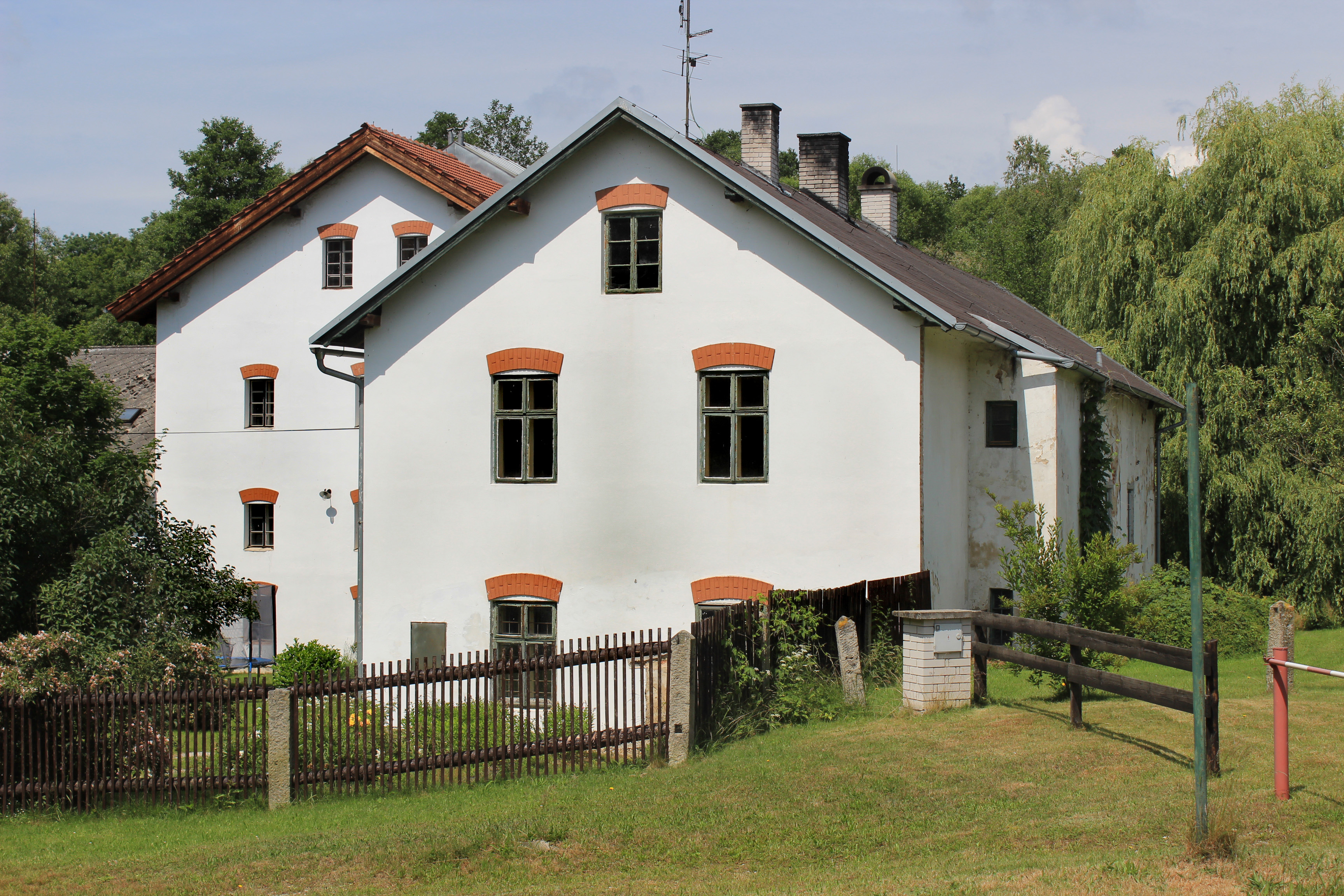 Old millhouse by Nežárka river in Dolní Žďár, Czech Republic.